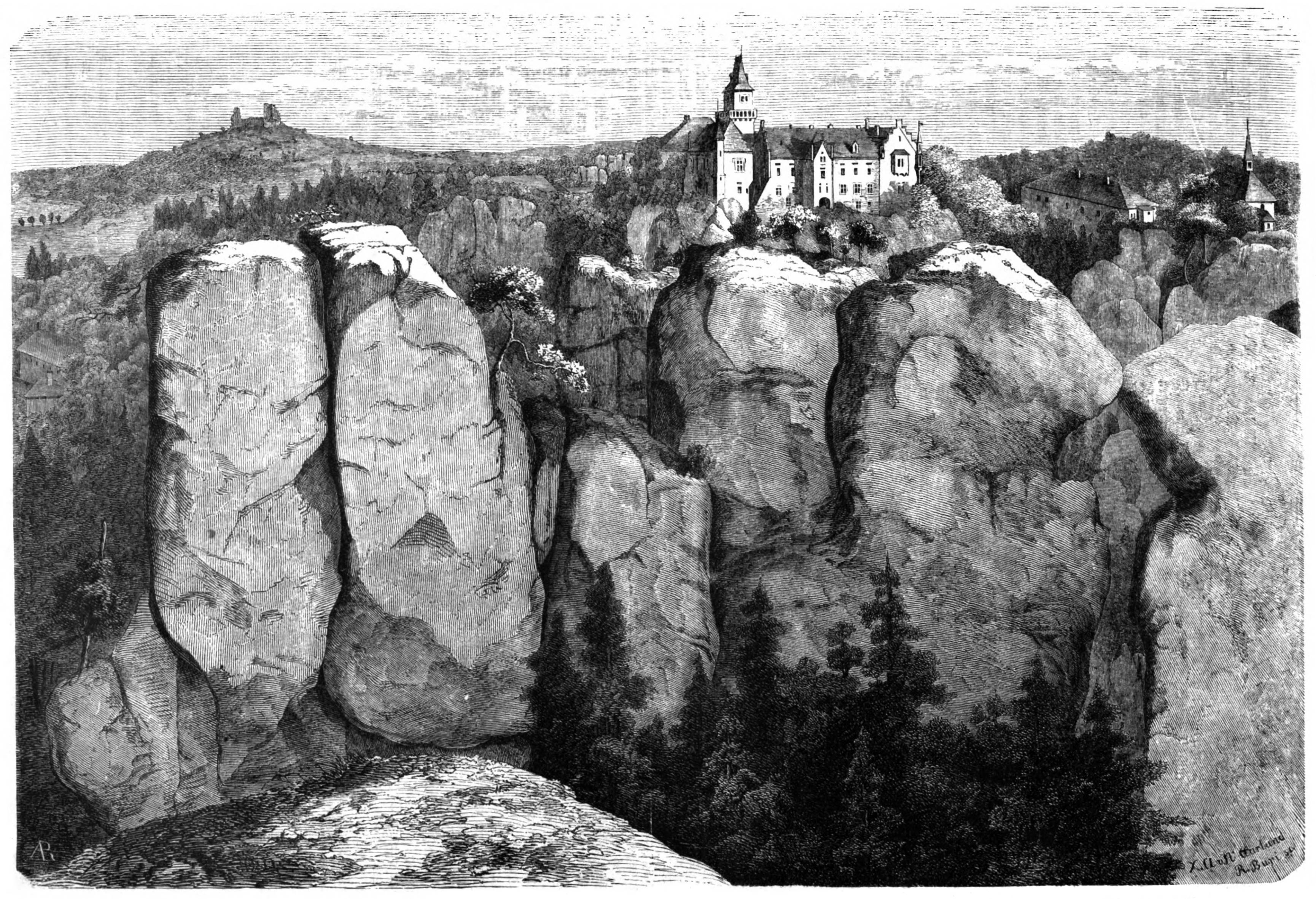 caption: "Der Marienfelsen auf Großskal bei Turnau in Böhmen."